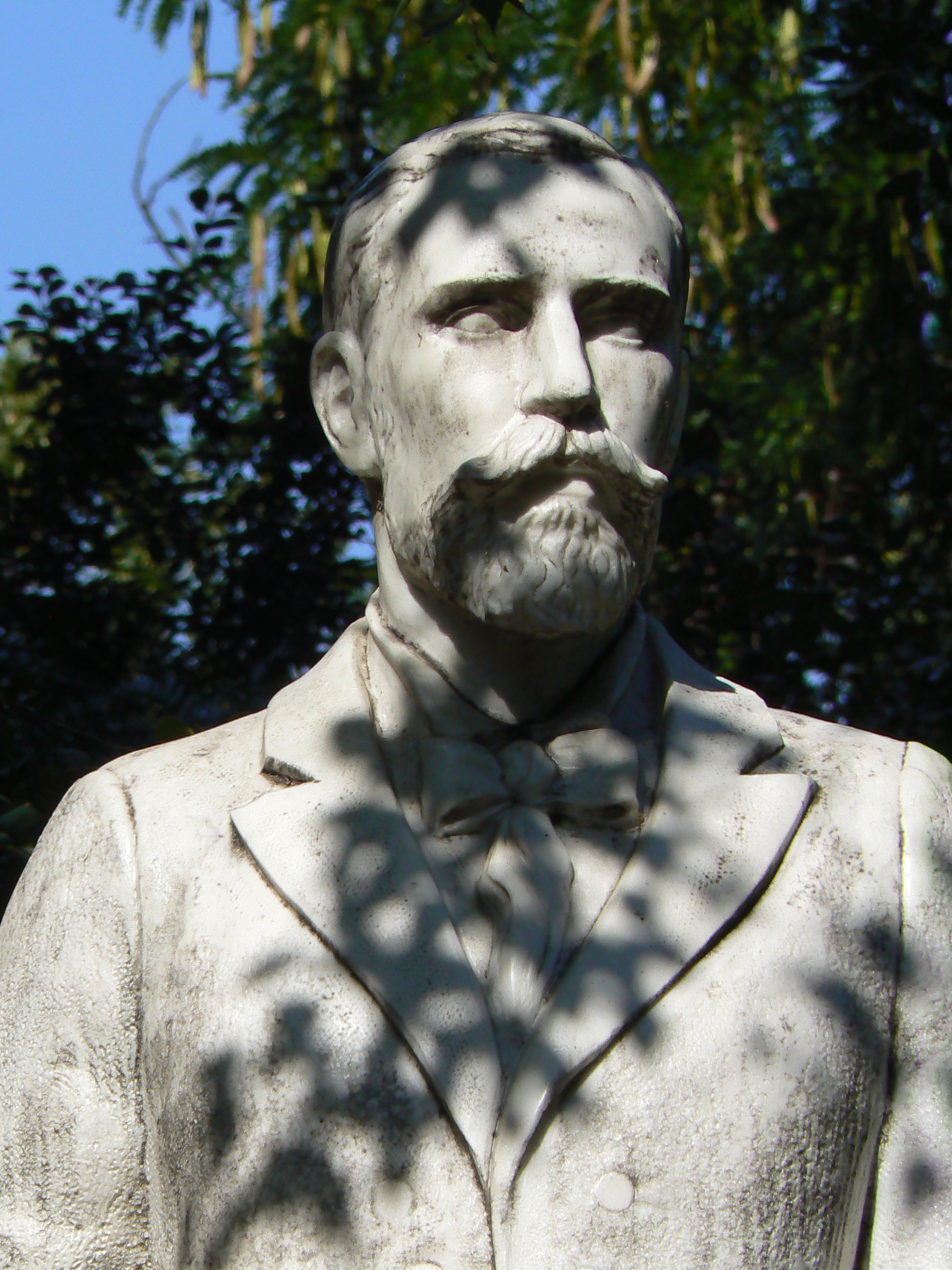 Statue of Alexander Balan, the first rector of Sofia University, Sofia, Bulgaria